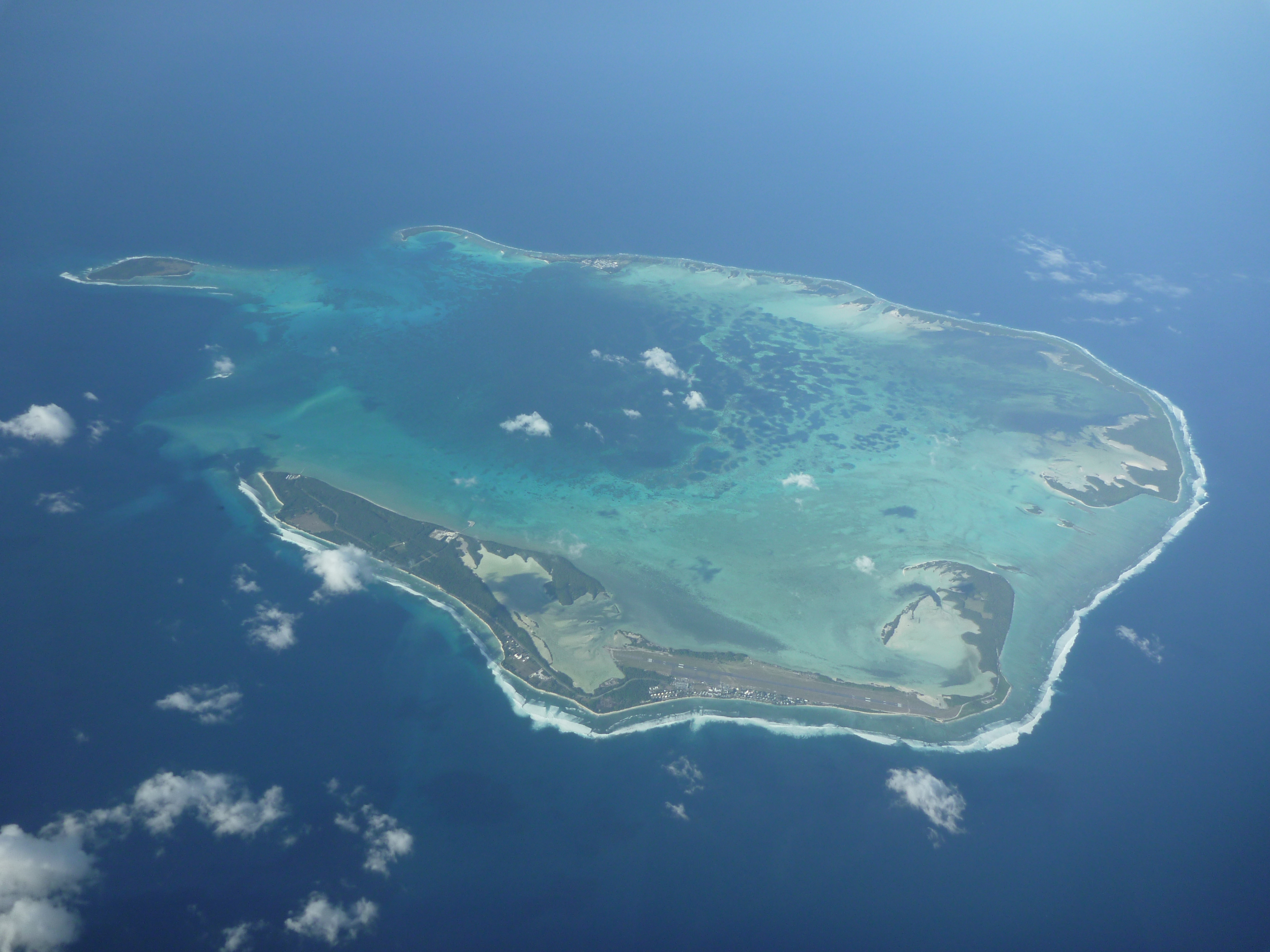 Cocos Island Atoll in the Indian Ocean - part of the Cocos (Keeling) Islands group.